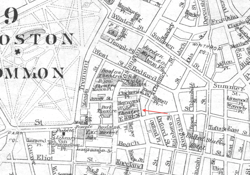 Detail of map of Boston, Massachusetts, USA. Title: Map of the city of Boston Author: G.W. Bromley & Co. Publisher: G.W. Bromley & Co. Date: 1886